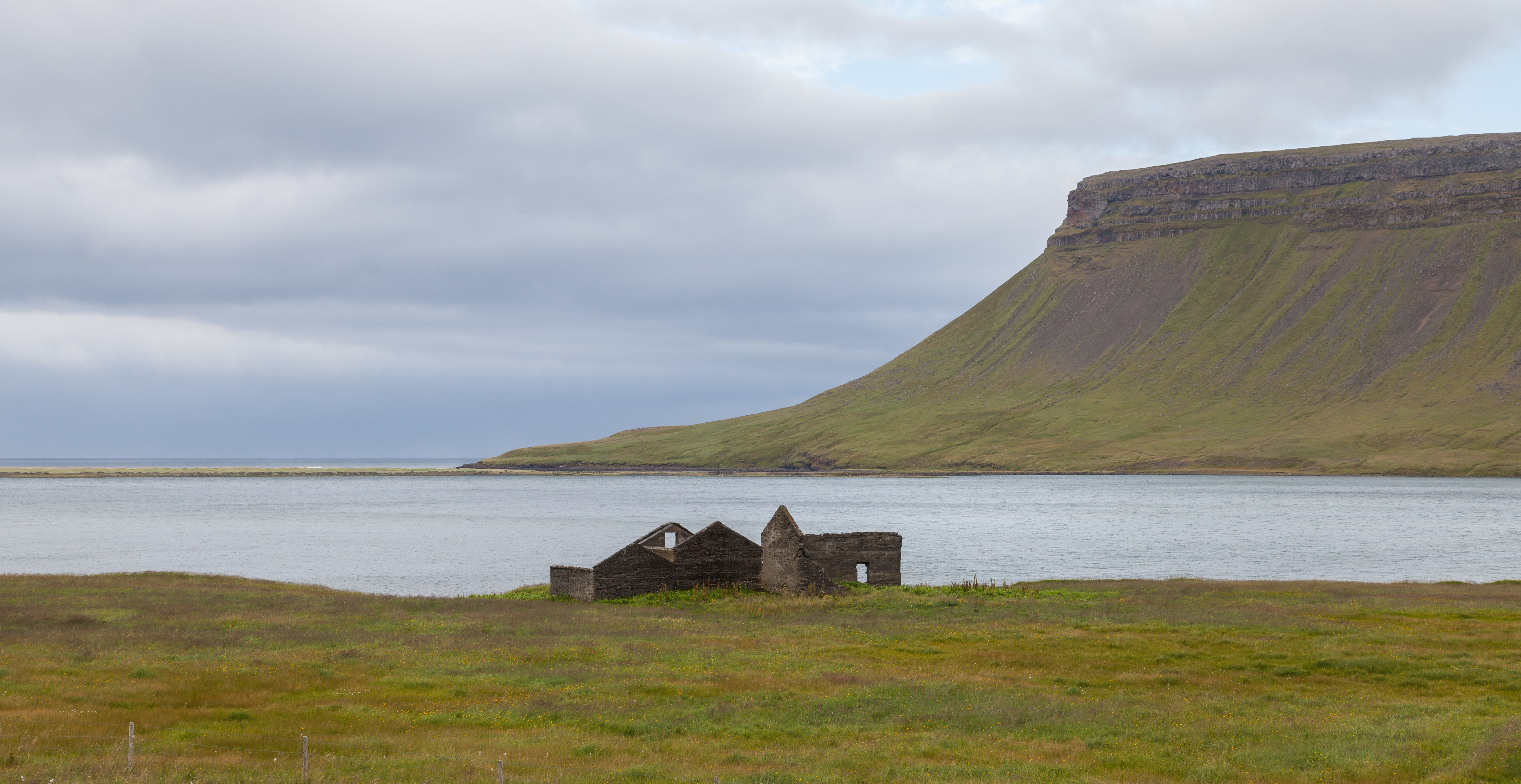 Búlandshöfði, Vesturland, Iceland